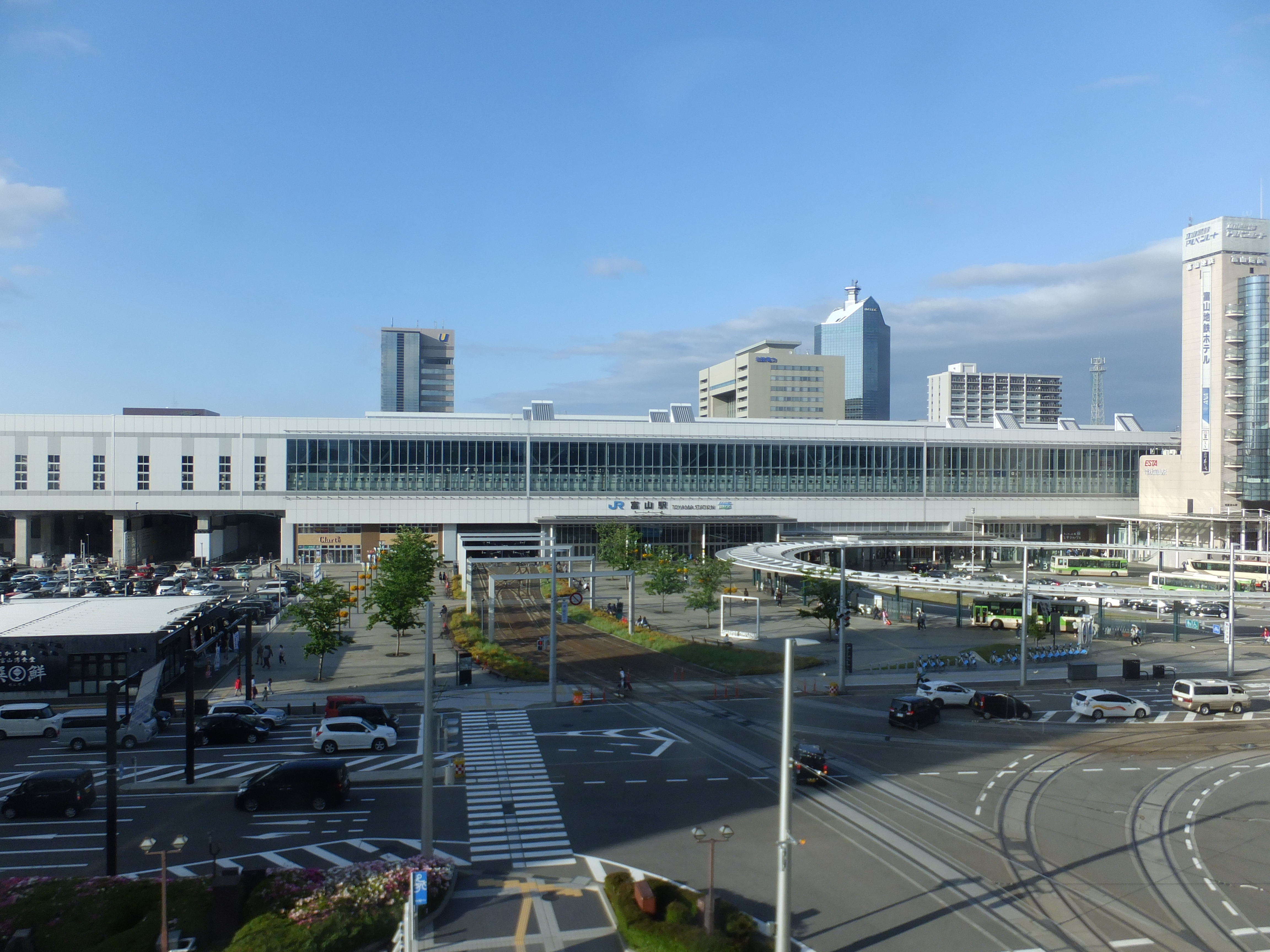 Toyama Station operated by the West Japan Railway and Ainokaze Toyama Railway, in Toyama City, Japan